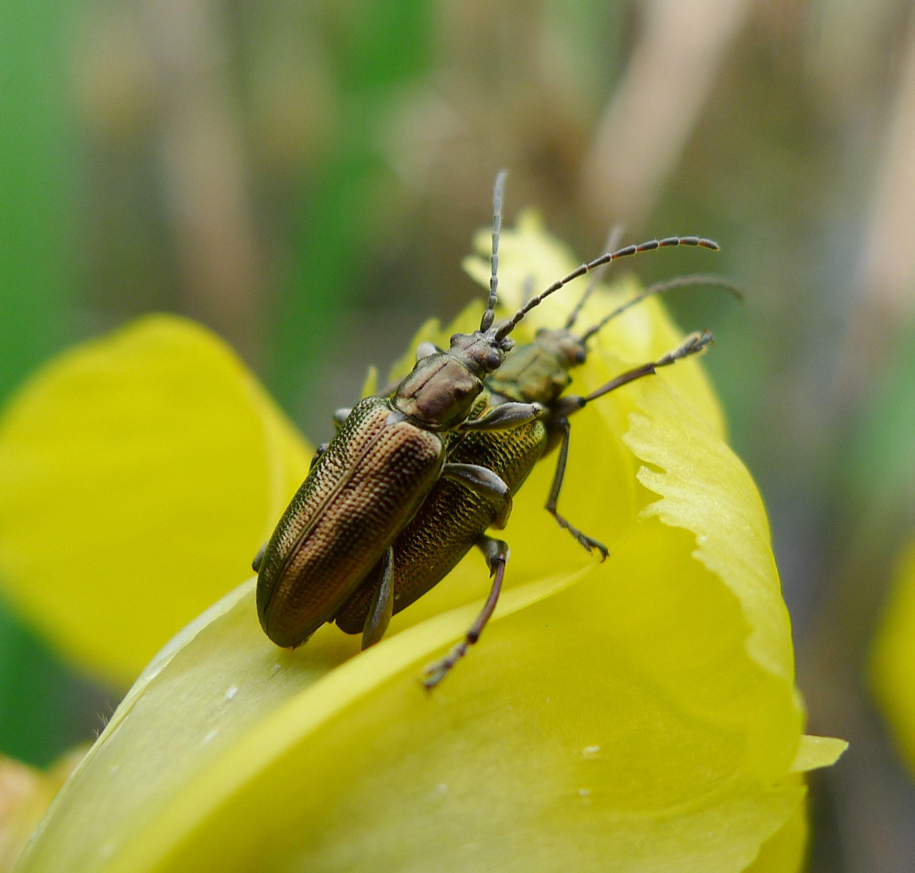 SO802607. Monkwood. Worcs . GB. Pair seen on Flag Iris in the pond